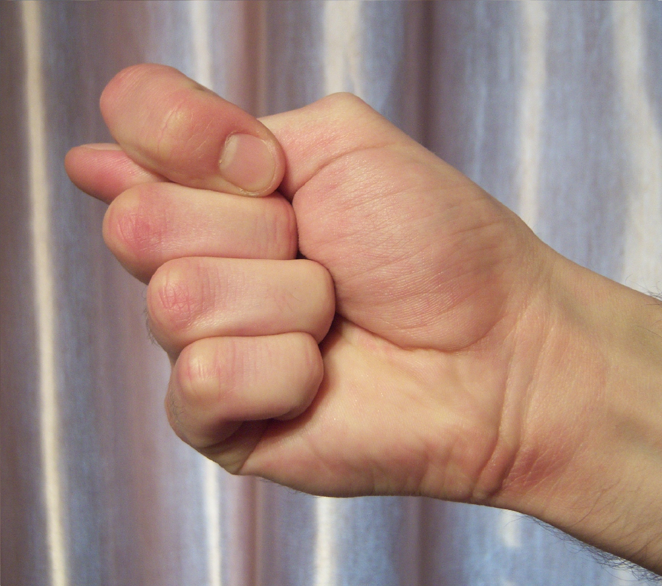 The characteristic folding poltsev hands indicating a failure of any of the suggestions!